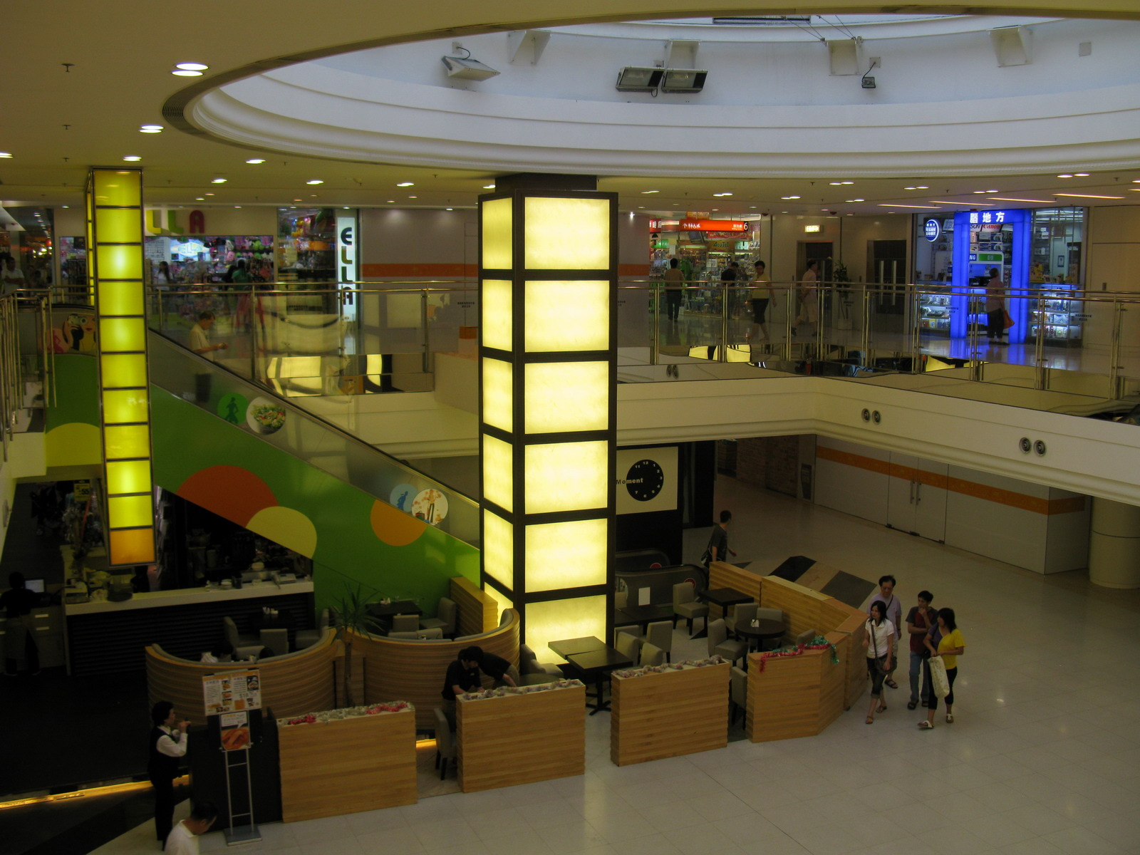 Tsz Wan Shan Shopping Centre 6/F Atrium